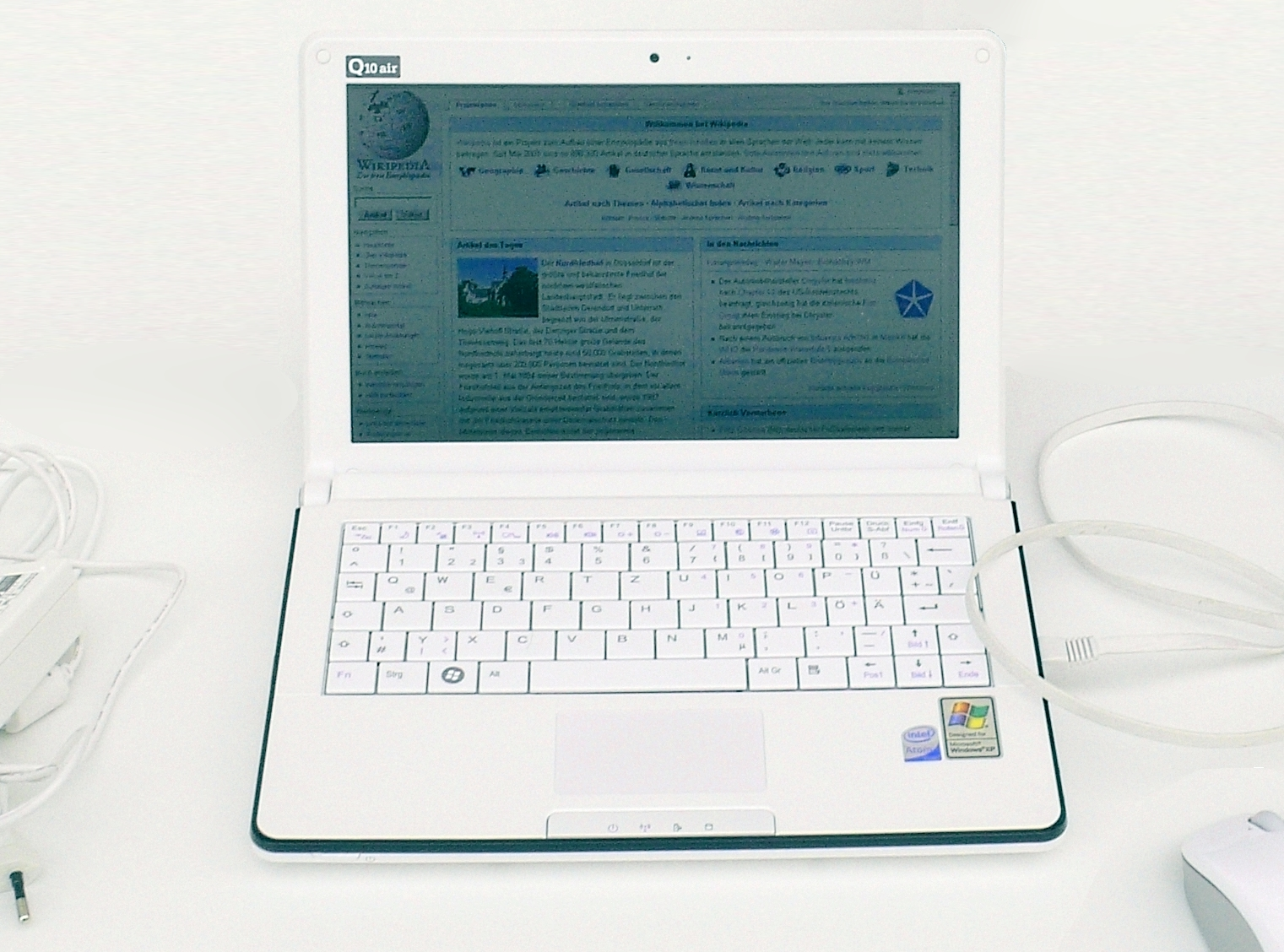 The ECS G10IL is a netbook computer designed by ECS. Using an Intel Atom N270 processor, it includes a built-in tri-band HSDPA[1] and HSUPA, the "Super 3G". The notebook will be available with Linux and Windows XP Konfiguration Microsoft Windows XP SP3 Taskleiste auf Klassischer Ansicht Taskleiste auf den rechten Bildschirmrand verschoben Am Netbook Desktop lästige Sprechblasen (Balloon Tips) deaktiviert [1] Maus mit USB-Nano Empfänger; (die mittlere) Scrollradtaste mit der Tastendruckzuweisung F11 belegt (Ermöglicht den vereinfachten Wechsel zur Vollbilddarstellung per Mausklick) Firefox als Browser Firefox Add. Sidebar Autohide installiert (Öffnet/Schließt im Firefox Vollbildmodus am linken Seitenrand Lesezeichen) Energiesparmodus S4 Aktiviert Start, Ausführen: Powercfg -H On System Energieoptionen, Erweitert, beim Schließen des Netbooks, in den Ruhezustand wechseln (S4 Suspend to Ram Modus). Systemsteuerung, System, Erweitert, Systemleistung, "Für Optimale Leistung", Durchsichtigen Hintergrund für Symbolunterschriften auf Ja. XP Start- beschleunigt: Start, Ausführen: Msconfig bestätigen, BOOT.INI dort /NOGUIBOOT bestätigen.